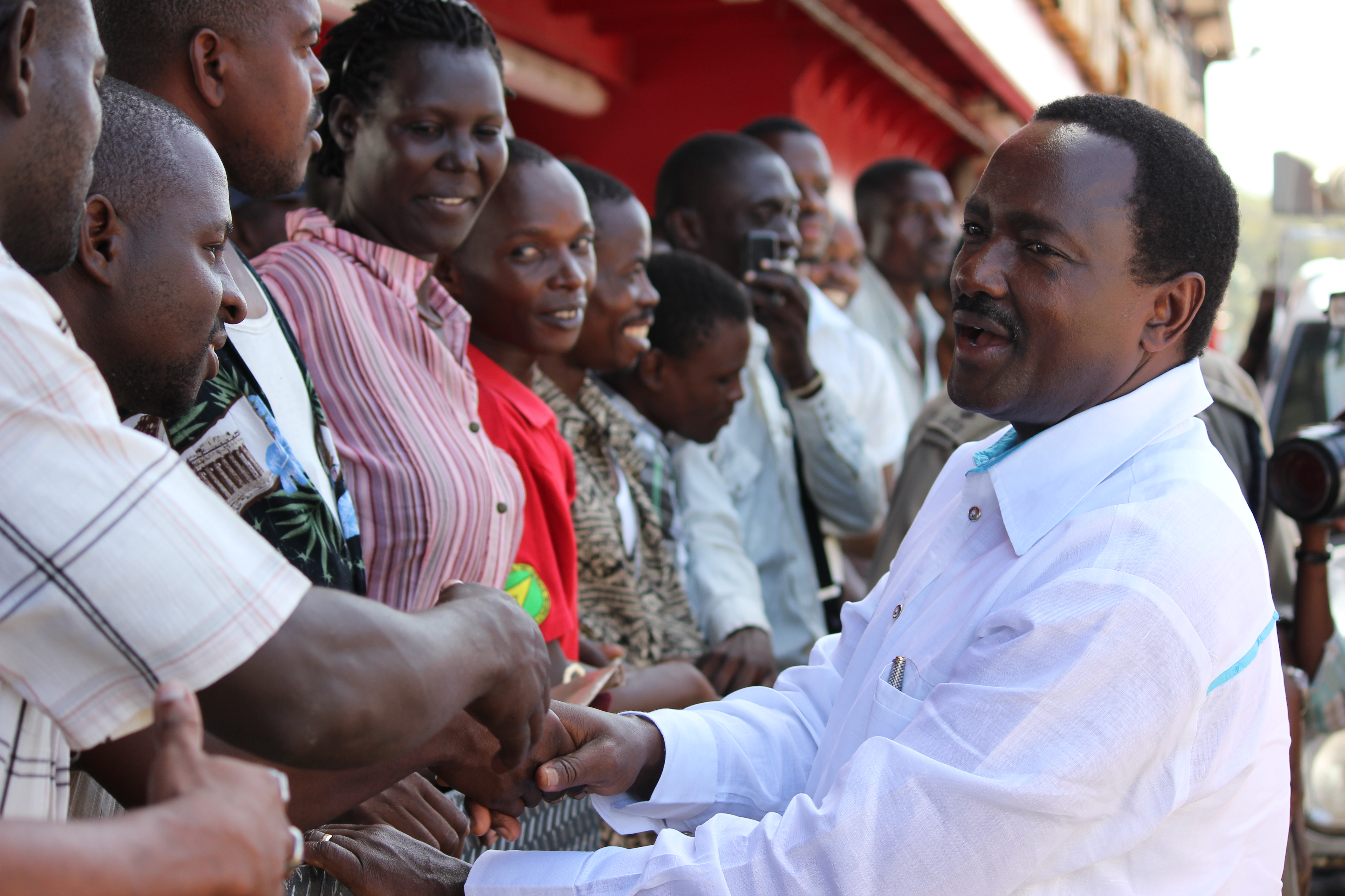 Kalonzo Musyoka is the Kenyan Vice President, here he is greeting supporters. This is a common type of greeting with politicians and celebrities